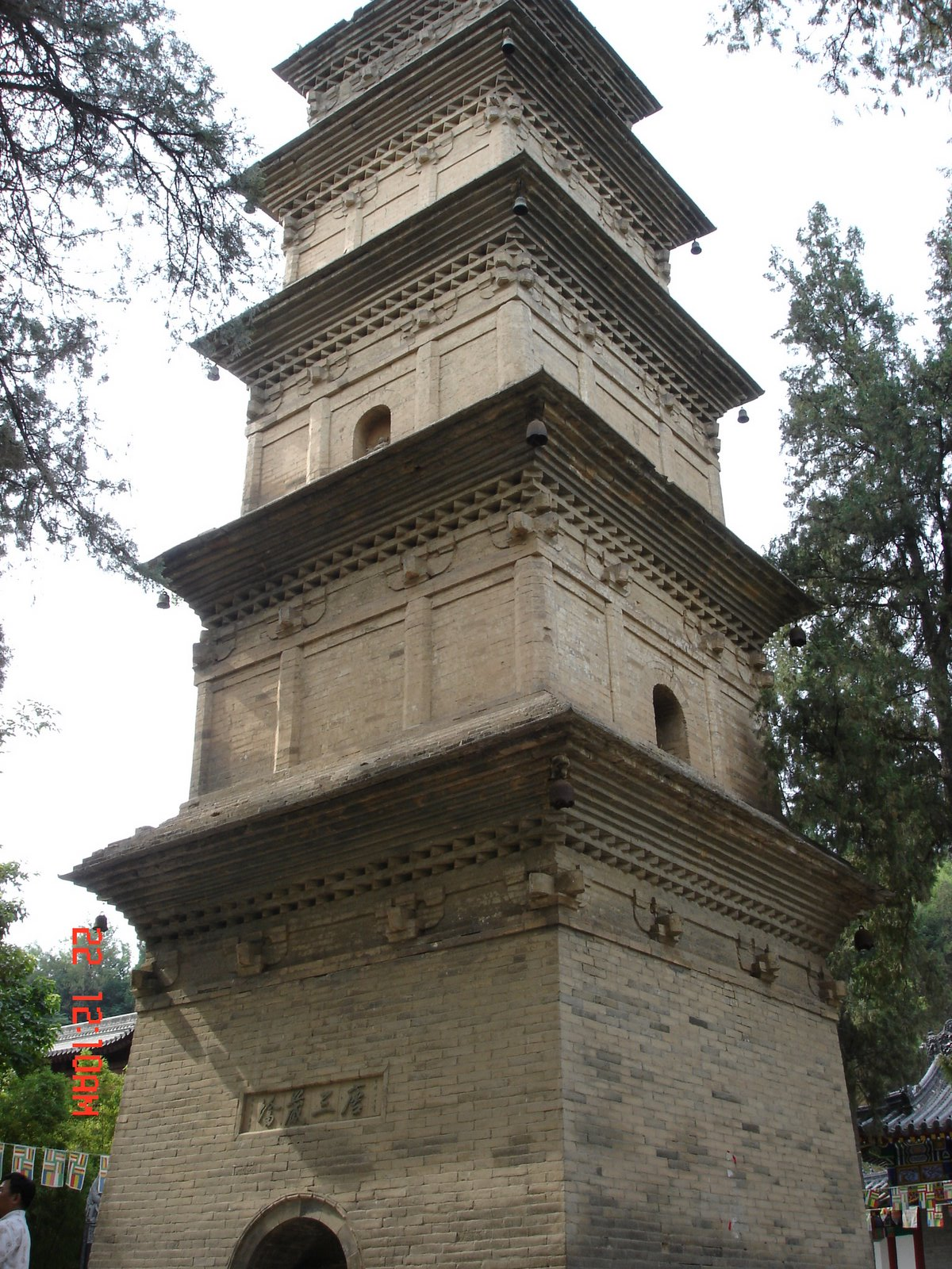 Pagoda of Xingjiao Temple, Xi'an